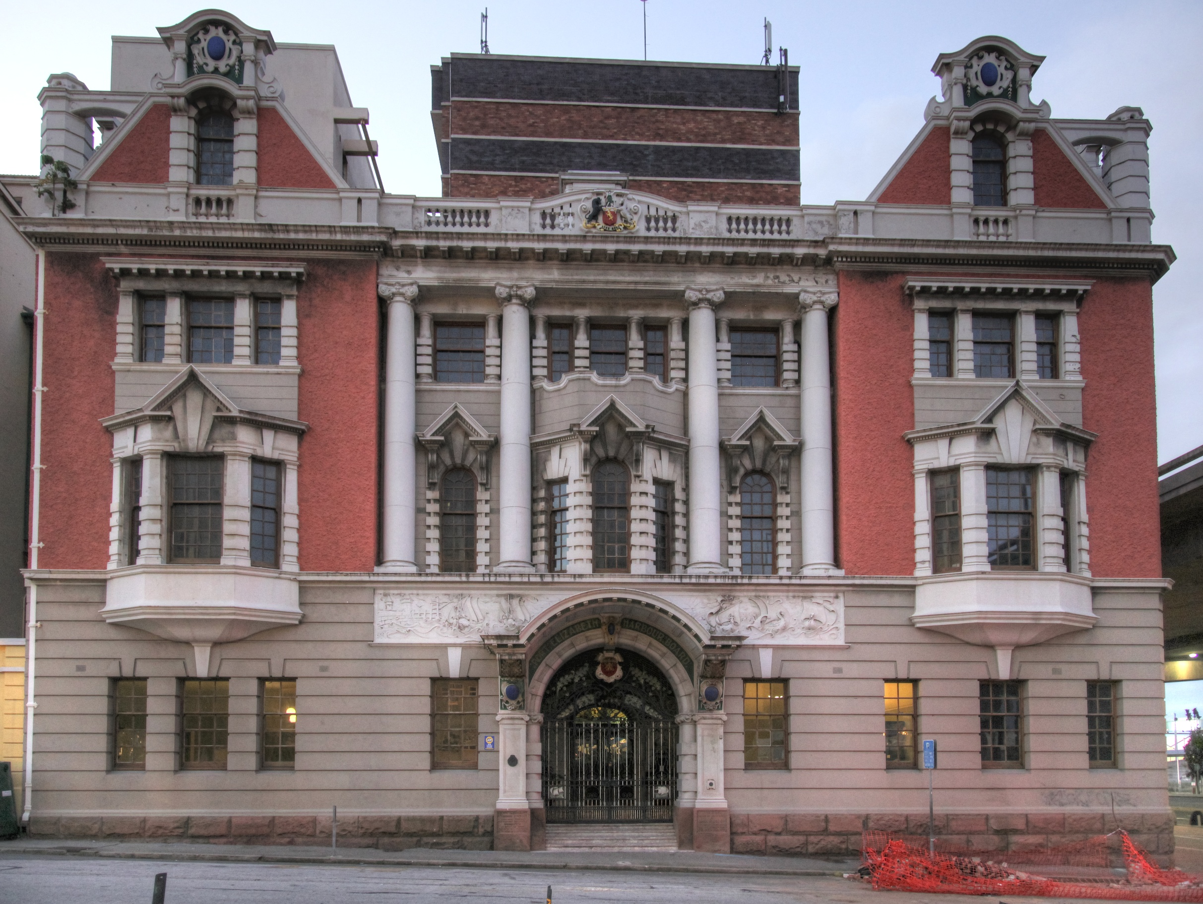 Old Harbour Board Building, Fleming Street, Port Elizabeth This media shows a South African Protected Site with SAHRA file reference 9/2/073/0023.